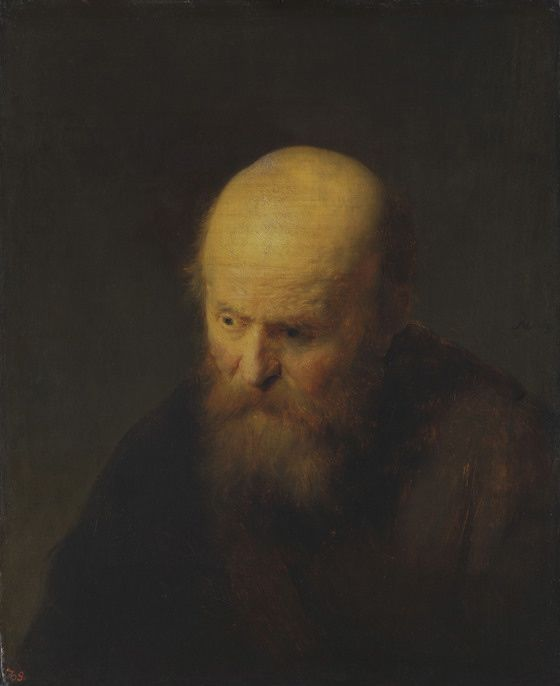 This image is available from the Netherlands Institute for Art Historyunder digital ID 232206. This tag does not indicate the copyright status of the attached work. A normal copyright tag is still required. See Commons:Licensing.